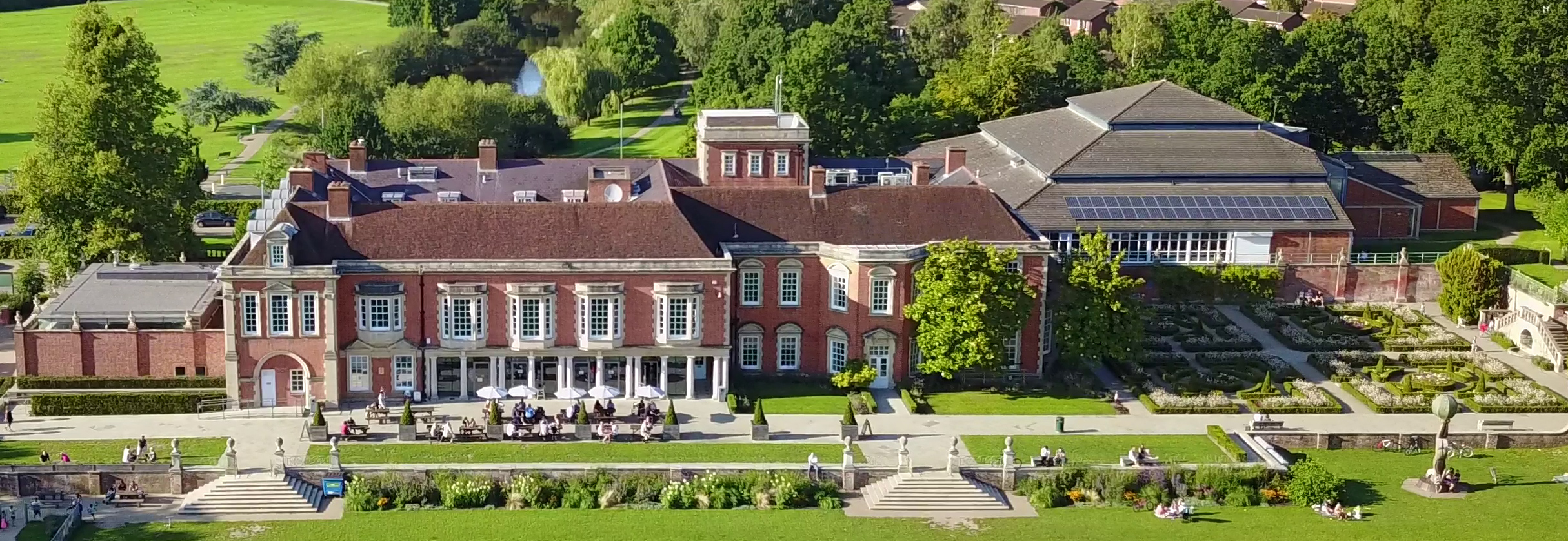 South Hill Park Arts Centre Wikidata has entry Q7567474 with data related to this item. rear view